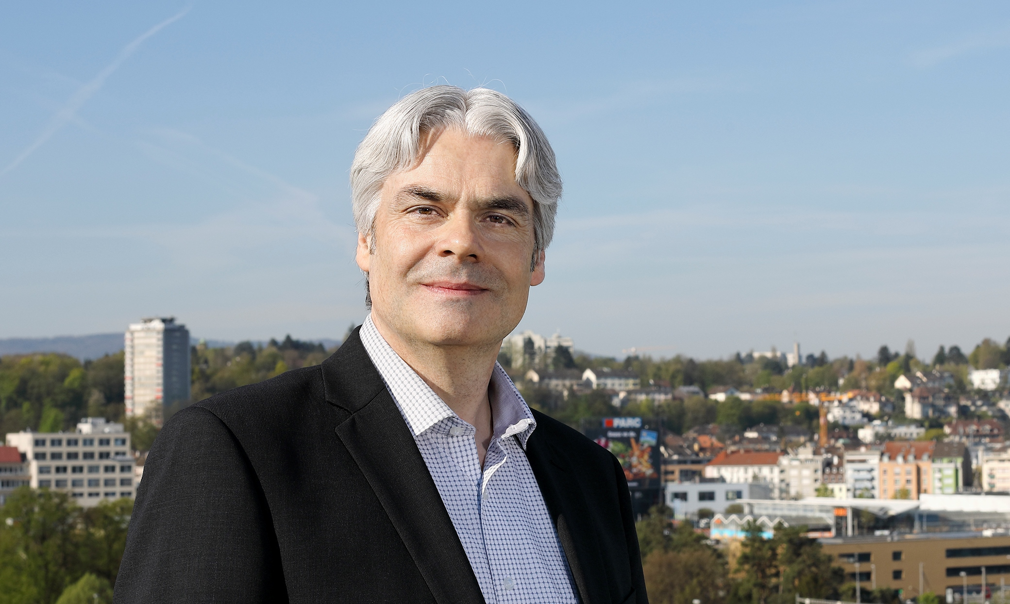 Porträtbild Lukas Ott 2018